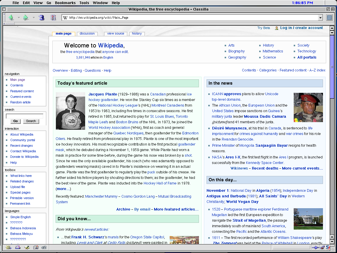 Screenshot of Classilla 9.0.4 rendering Wikipedia Main Page running on Mac OS 9.2.2. The Wikipedia logo has been removed from this image, but renders within the browser.